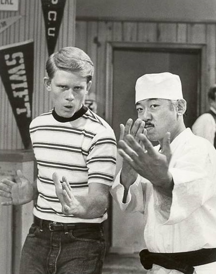 ABC promotional photo for the TV series Happy Days depicting Ron Howard as Richie Cunningham and Pat Morita as Arnold Takahashi in the 1975 episode "Richie Fights Back"